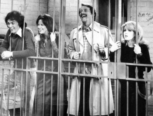 Photo from the television series All's Fair. From left:Michael Keaton (Lanny Wolf), Judith Kahan (Ginger Livingston), Richard Crenna (Richard Barrington) and Bernadette Peters (Charley Drake).